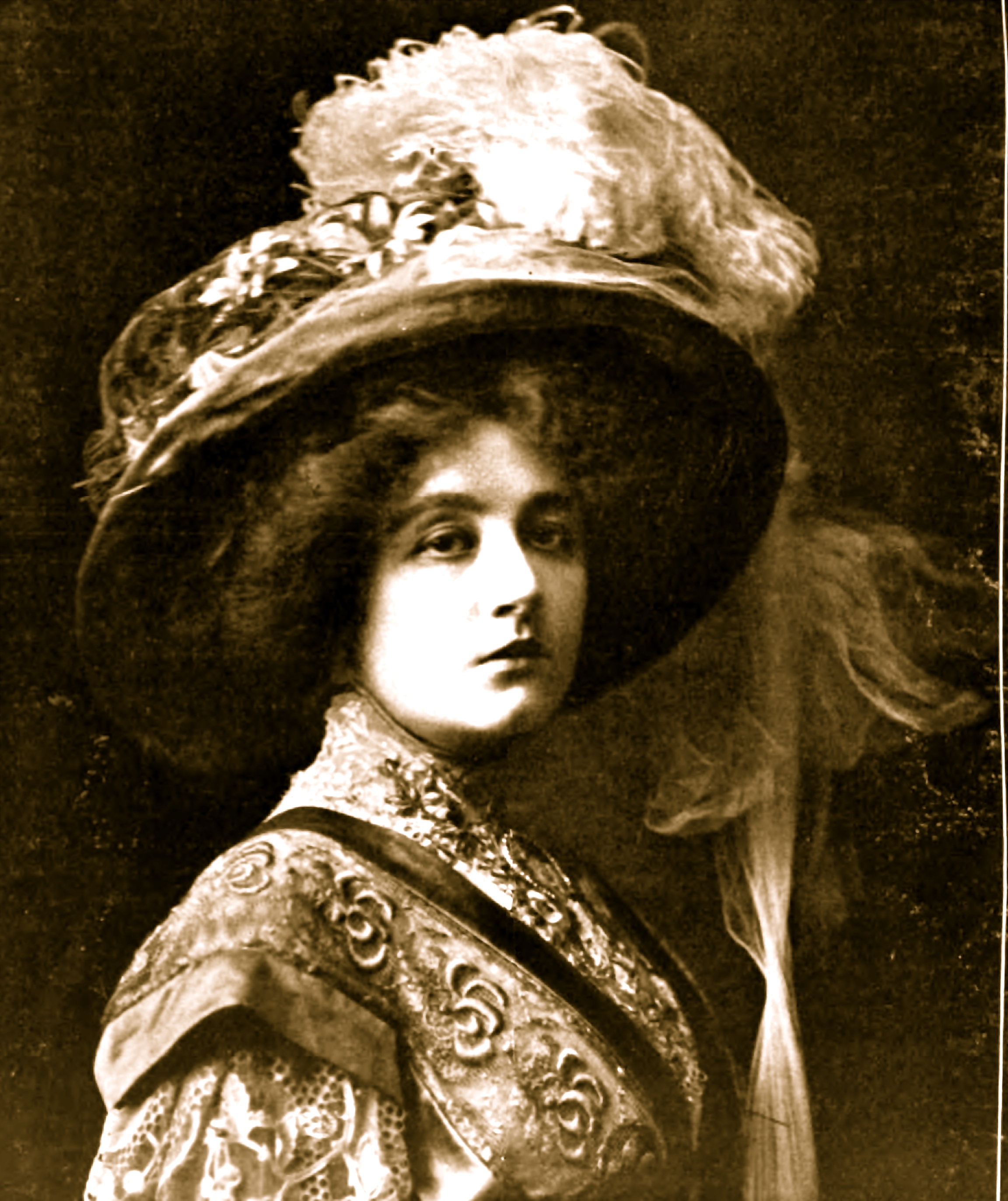 Lyricist Jean Lennox, best known for the Eva Tanguay song "I Don't Care"